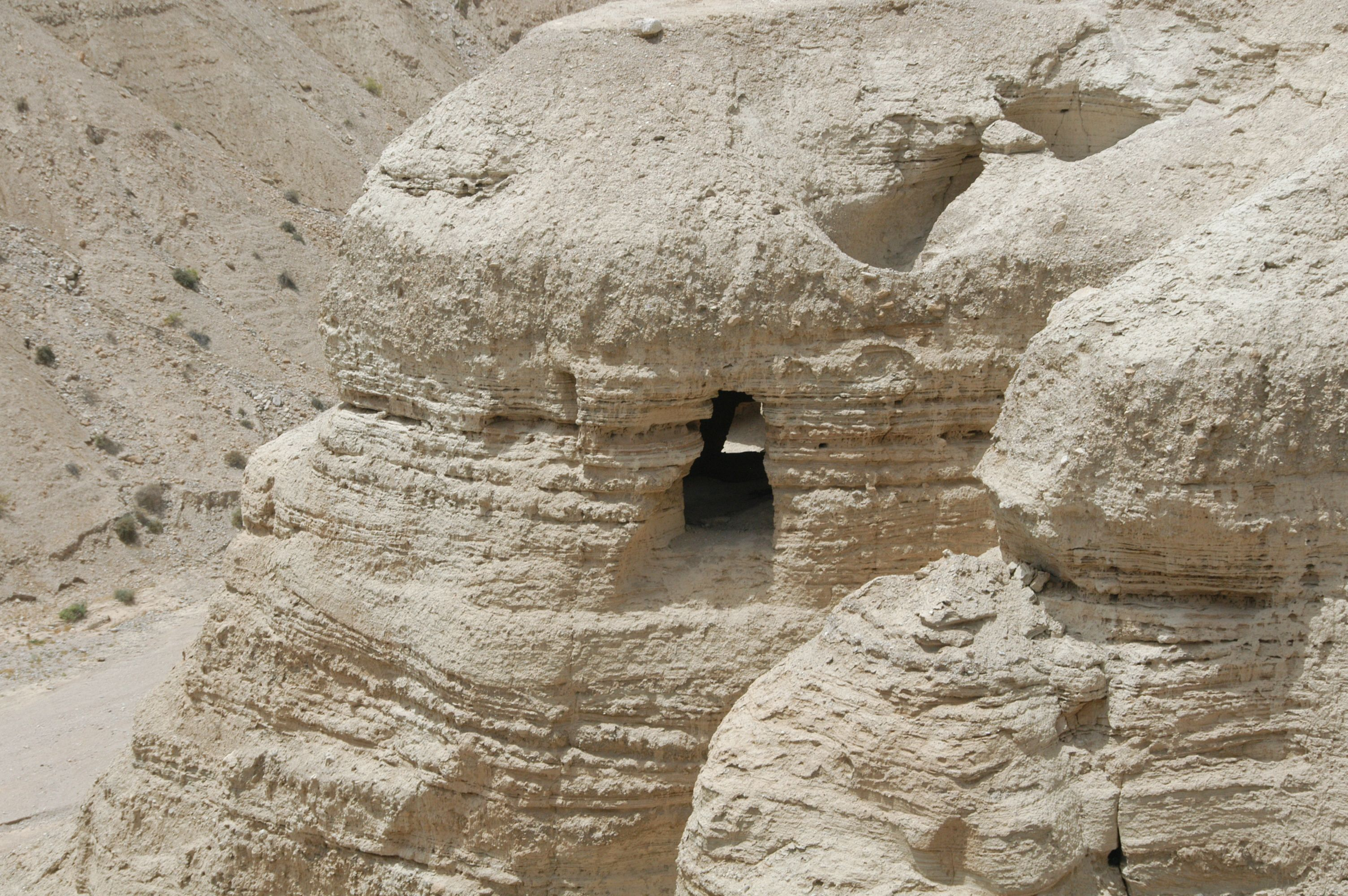 Cave four where the Testament of Qahat was found